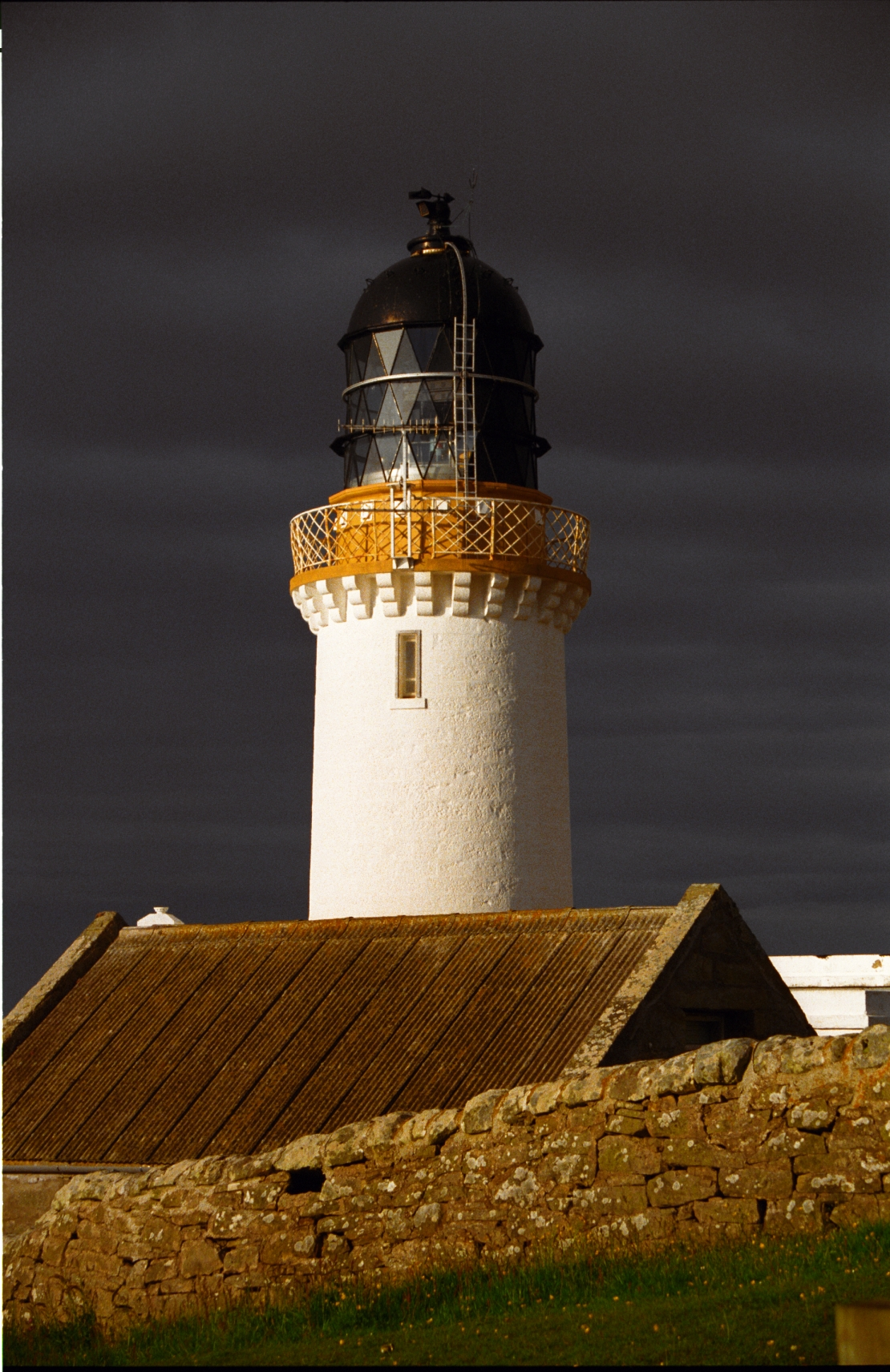 The lighthouse at Dunnet Head, Scotland, illuminated by the sun through a gap in the clouds.